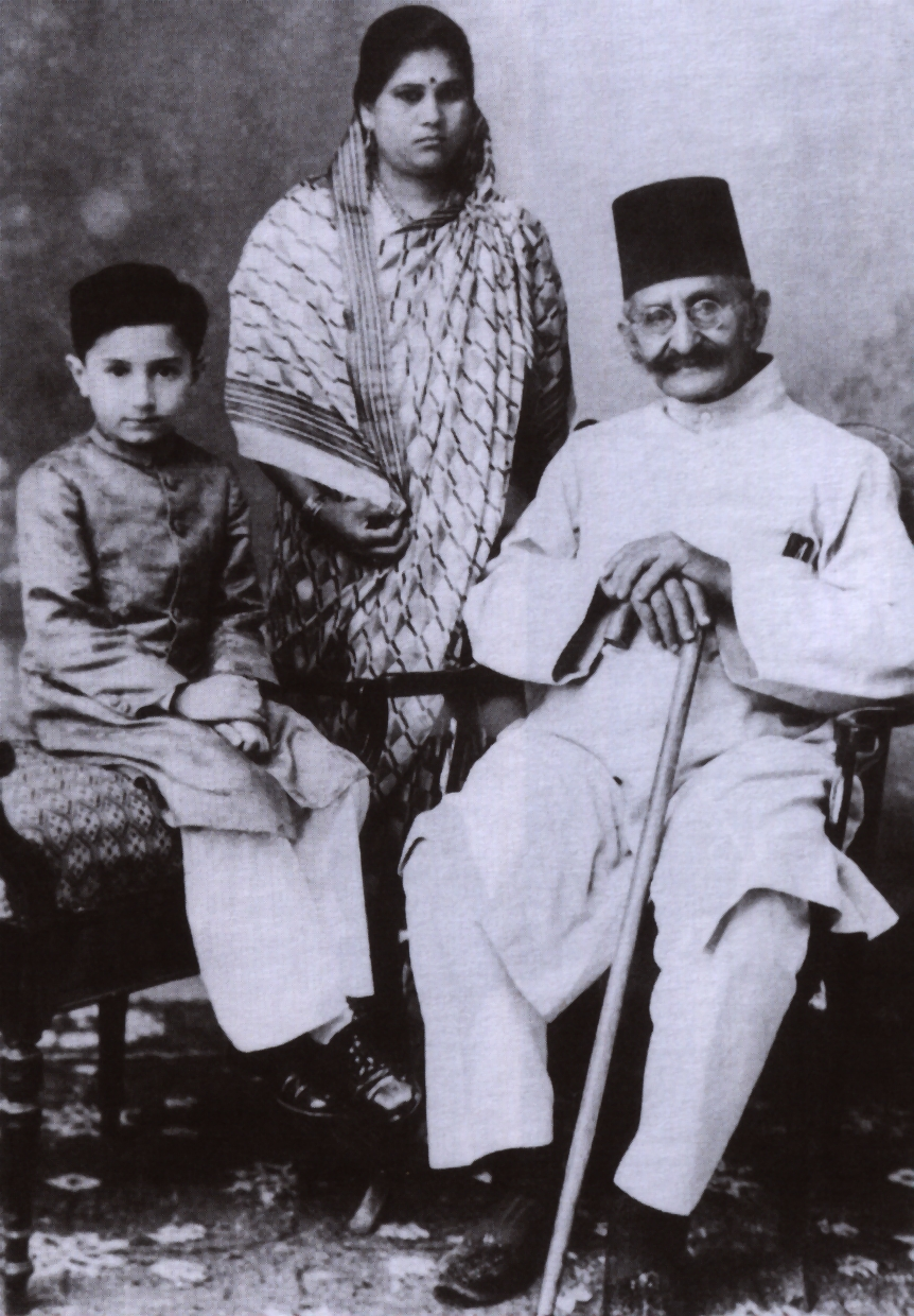 The prime minister of the Indian state of Hyderabad, His Excellency Highness Maharaja Sir Kishen Pershad Bahadur with his daughter Rani Sultan Kunwar Bibi and grandson and heir Raja Ratan Gopal Saincher.